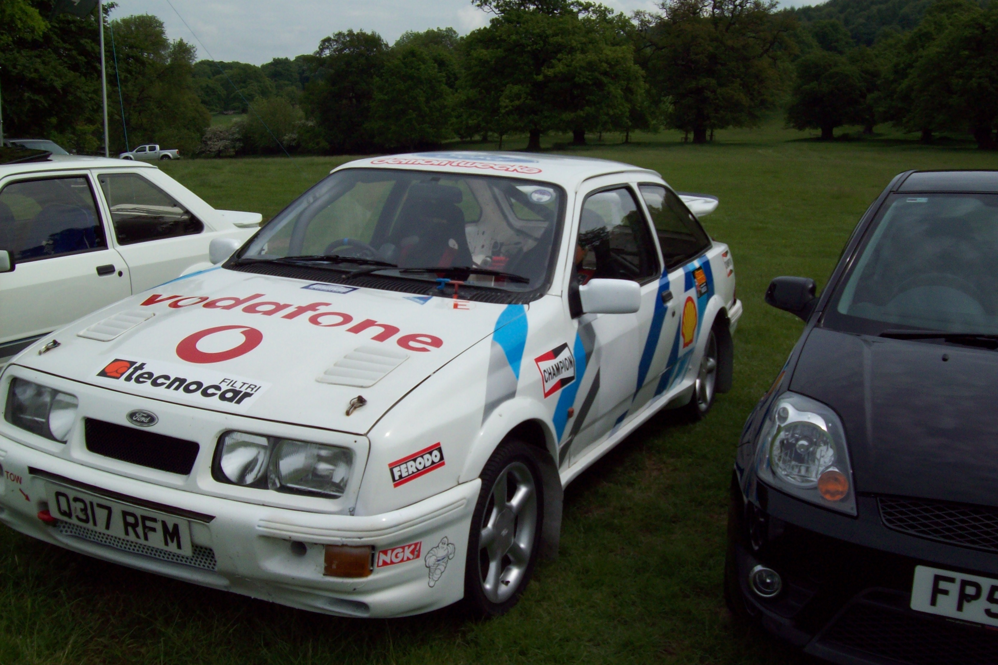 Taken at the Chatsworth Rally Show in 2010 with a Kodak C813 camera. According to the DVLA, it was registered in 1993, so it's almost certain to not be a works-built car - Ford had switched to the Escort RS Cosworth by then at pretty much all levels.